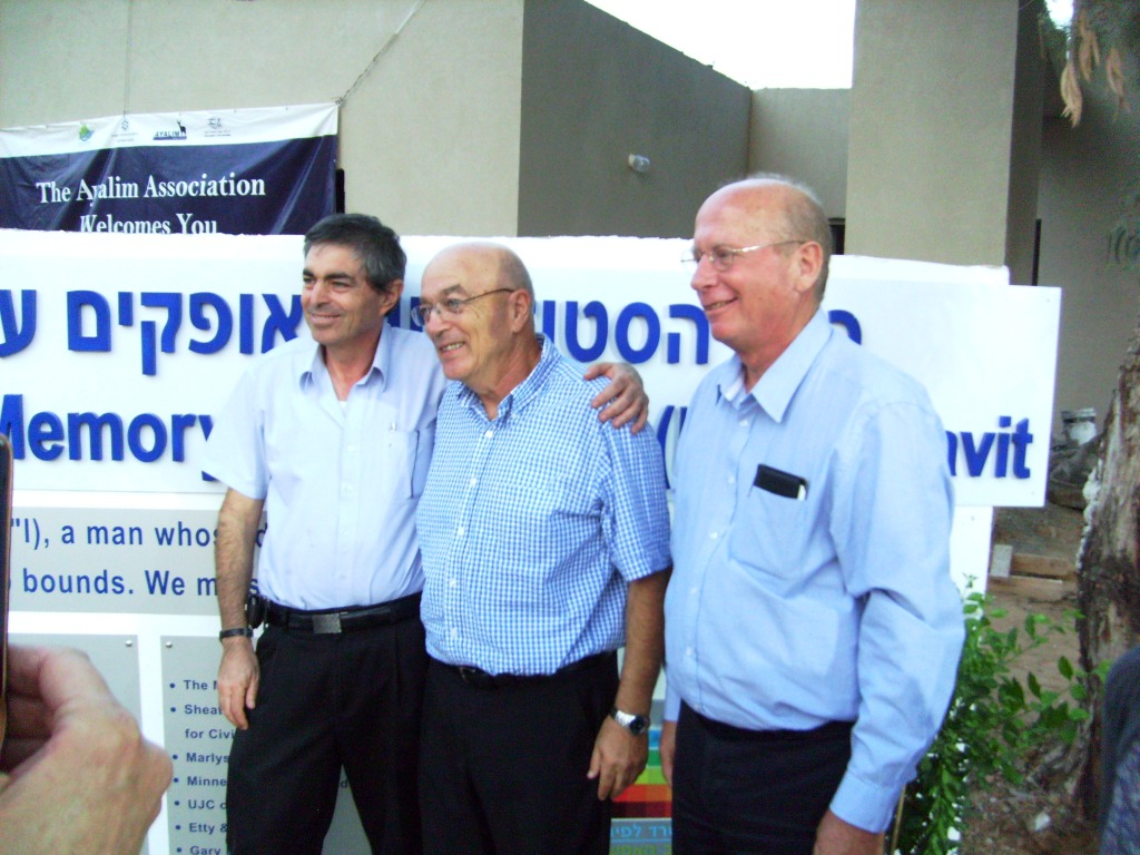 ayalim farm merage foundation opening in ofaqim